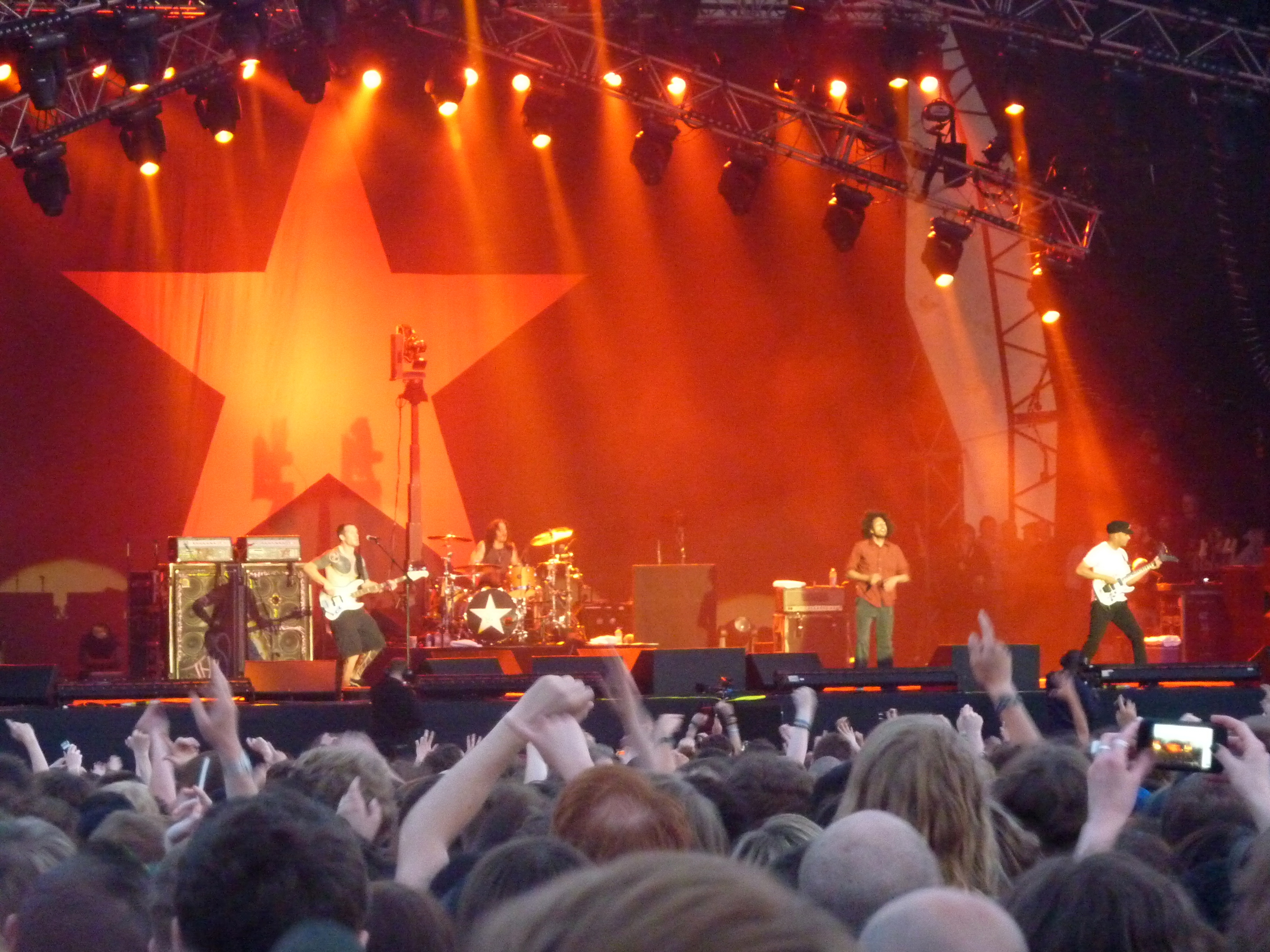 Photo of Rage Against the Machine